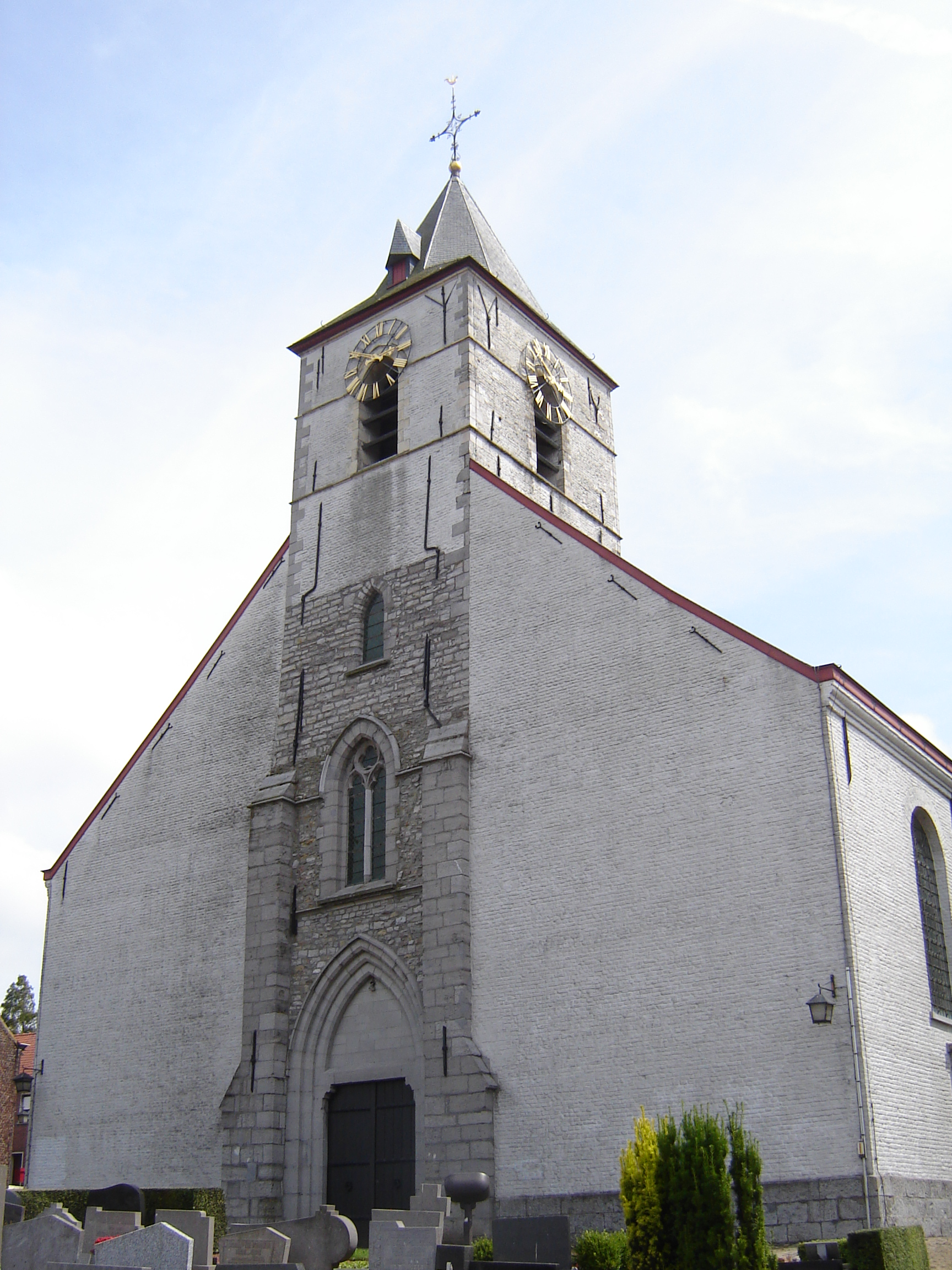 Church of Saint Amand in Kwaremont, Kluisbergen, East Flanders, Belgium.